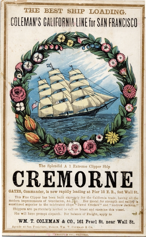 Sailing card for the clipper ship Cremorne. Gates, commander